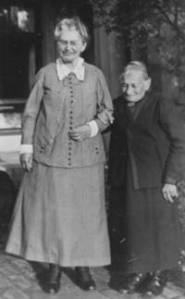 German painter, Clara Arnheim (left) and her sister Betty